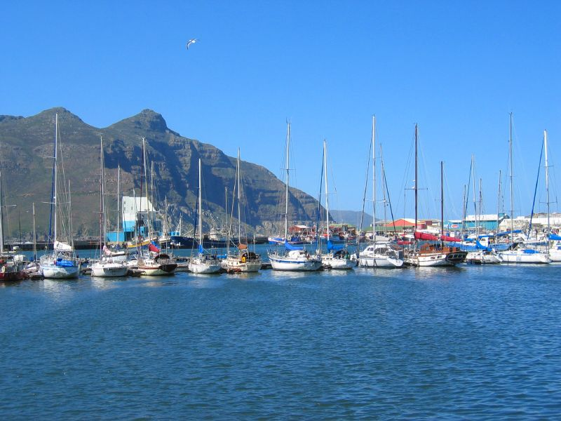 Harbor, Hout Bay, Cape Town, South Africa